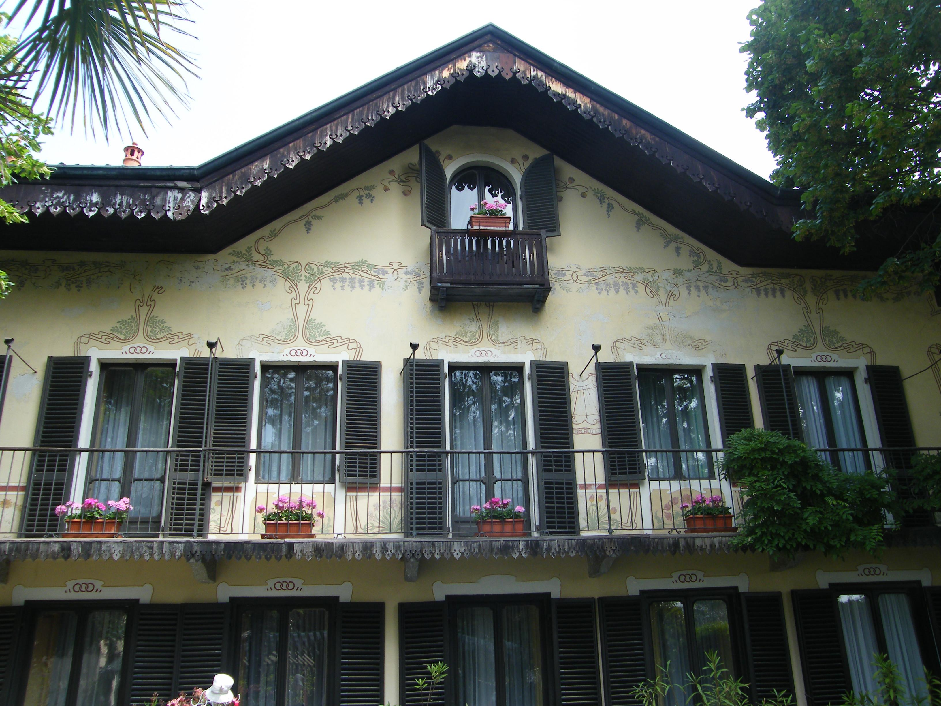 Villa Il Meleto, summer residence of the Italian poet Guido Gozzano